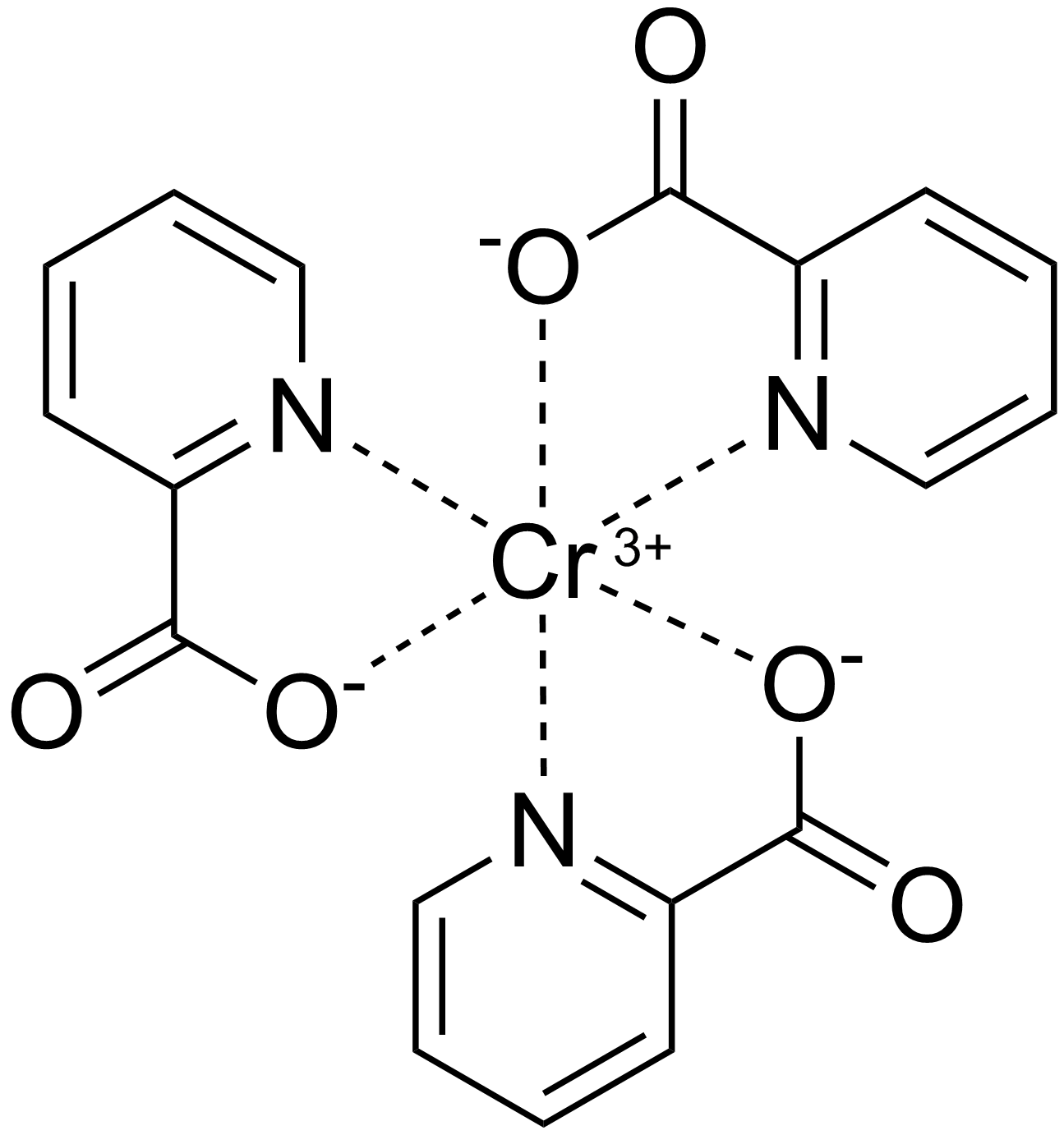 Chemical structure of chromium picolinate created with ChemDraw.